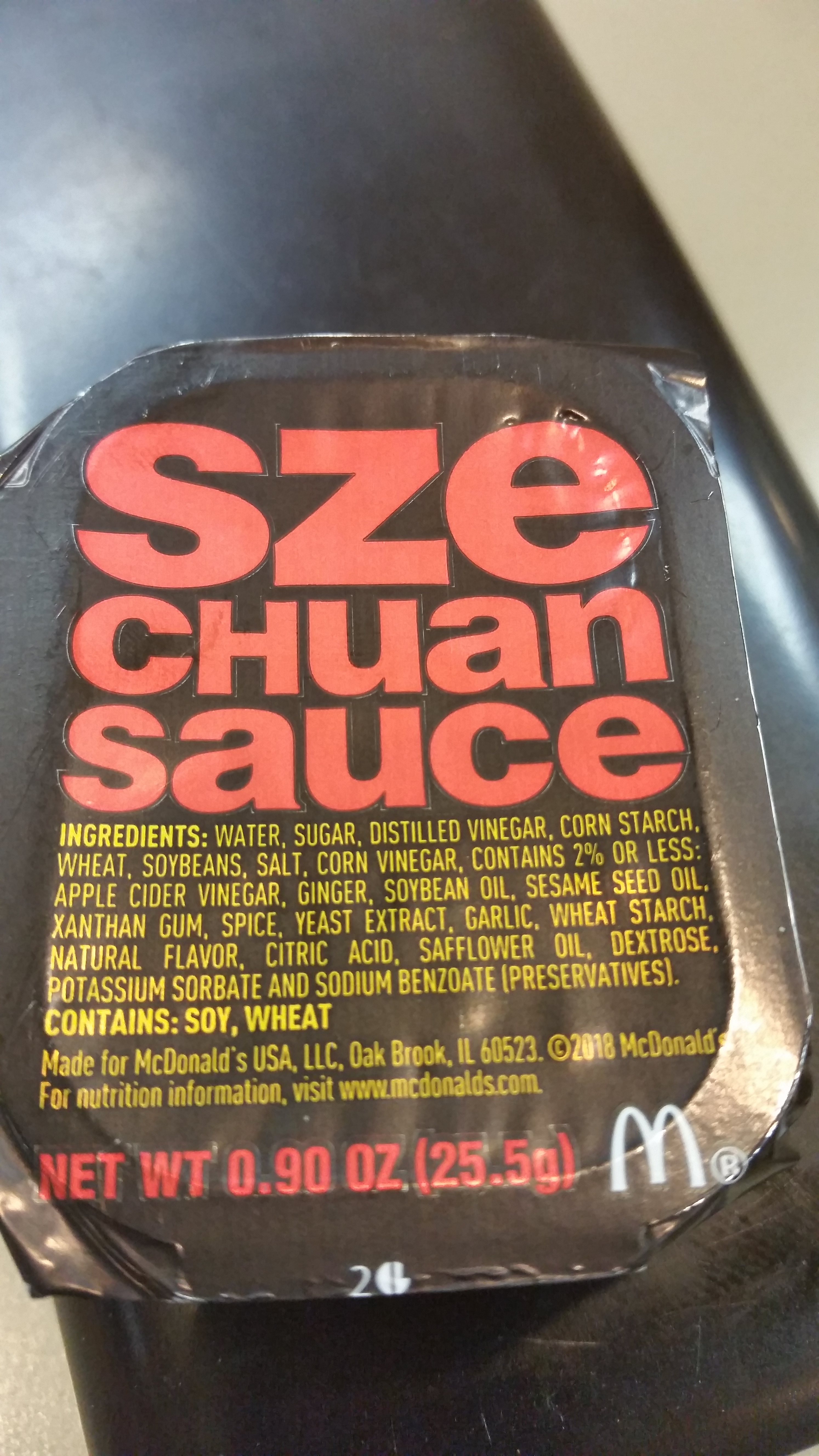 One packet of Szechuan Sauce produced for McDonalds in 2018. Picture taken at the Paradise Valley, San Diego location.